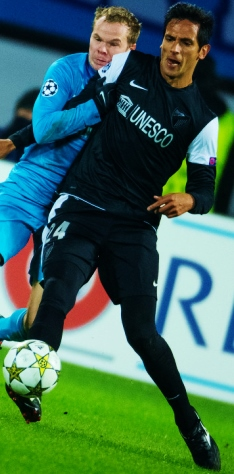 Roque Santa Cruz